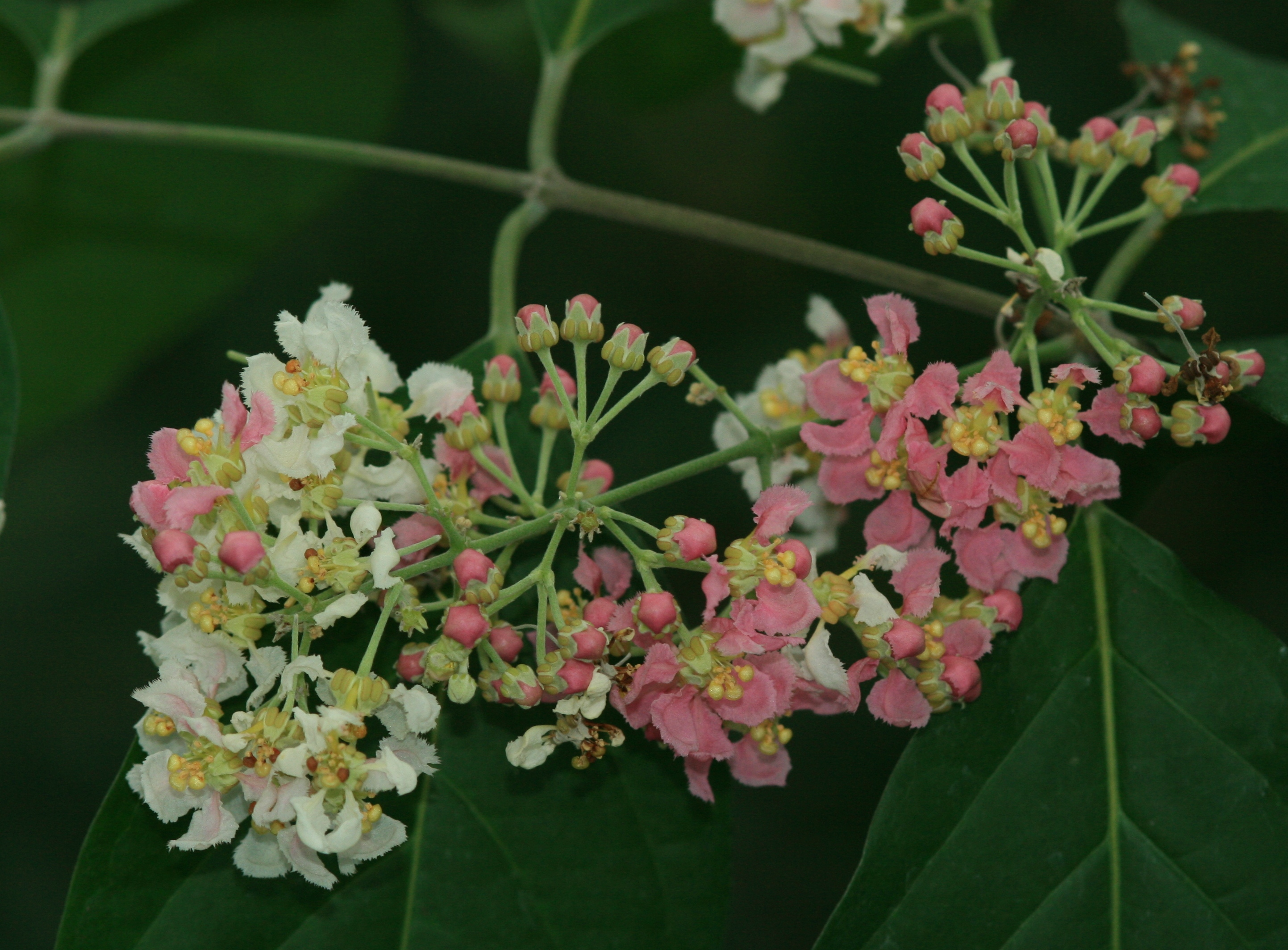 Flowering Banisteriopsis caapi in a greenhouse of Botanical Garden in Czech rep.